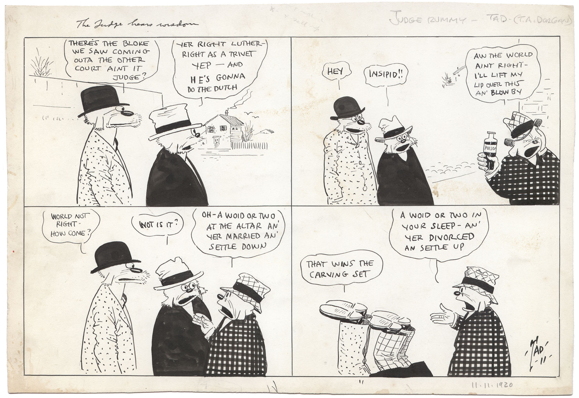 Judge Rummy and a friend talk to a drunk man on the street. Panel 1 Luther: There's the bloke we saw coming outa the other court aint it judge? Judge Rummy: Yer right Luther – right as a trivet yep – and he's gonna do the dutch Panel 2 Luther: Hey Judge Rummy: Insipid!! Drunk man: Aw the world ain't right – I'll lift my lip over this an' blow by Panel 3 Luther: World not right – how come? Judge Rummy: Wot is it? Drunk man: Oh – a woid or two at the altar an' yer married an' settle down Panel 4 Drunk man: A woid or two in your sleep – an' yer divorced an settle up Luther: That wins the carving set